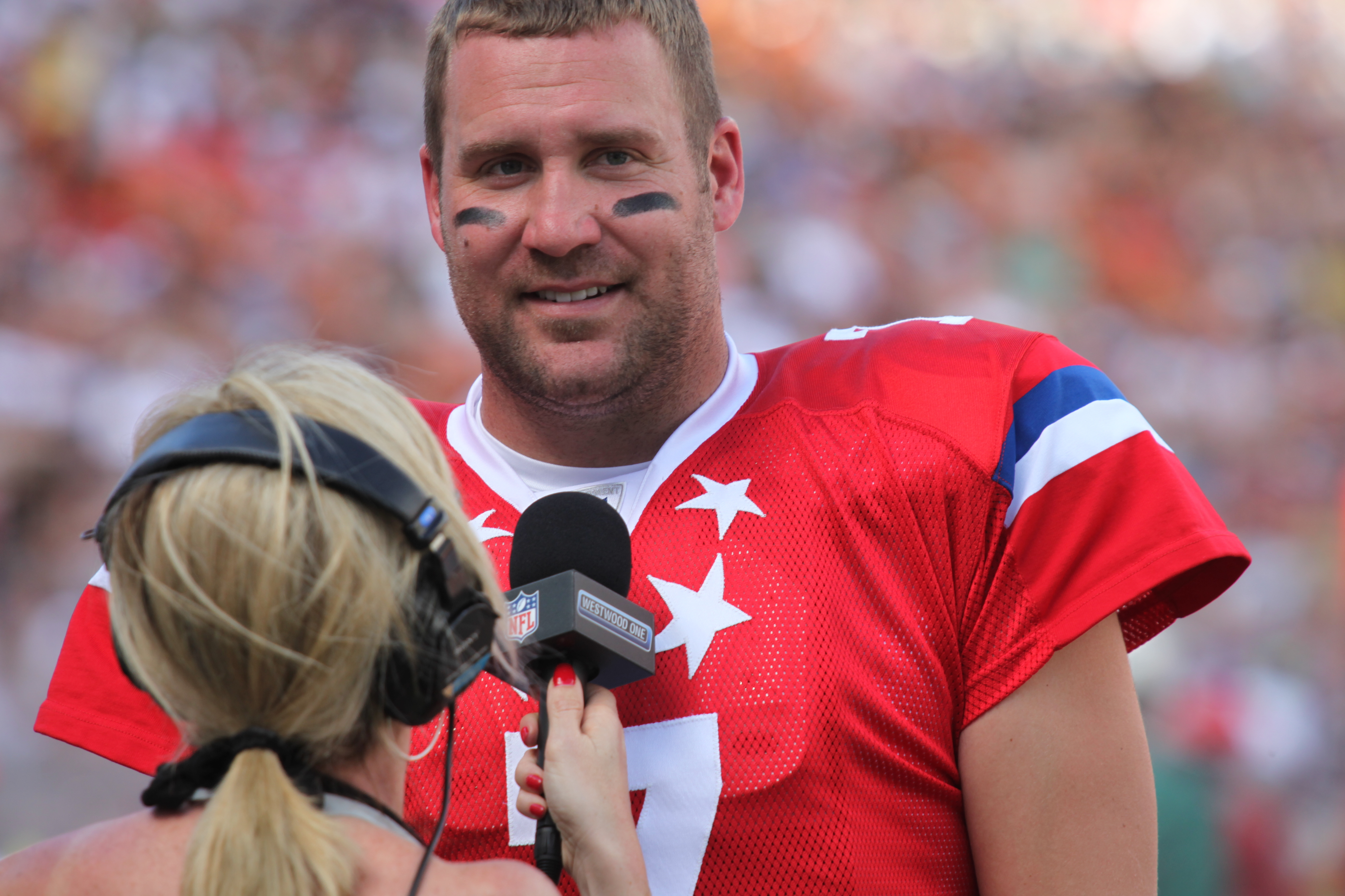 Pittsburgh Steelers quarterback Ben Roethlisberger is interviewed at the Aloha Stadium during the National Football League's 2012 Pro Bowl game in Honolulu, Hawaii, Jan. 29, 2012. (U.S. Marines photo by Cpl. Jody Lee Smith)